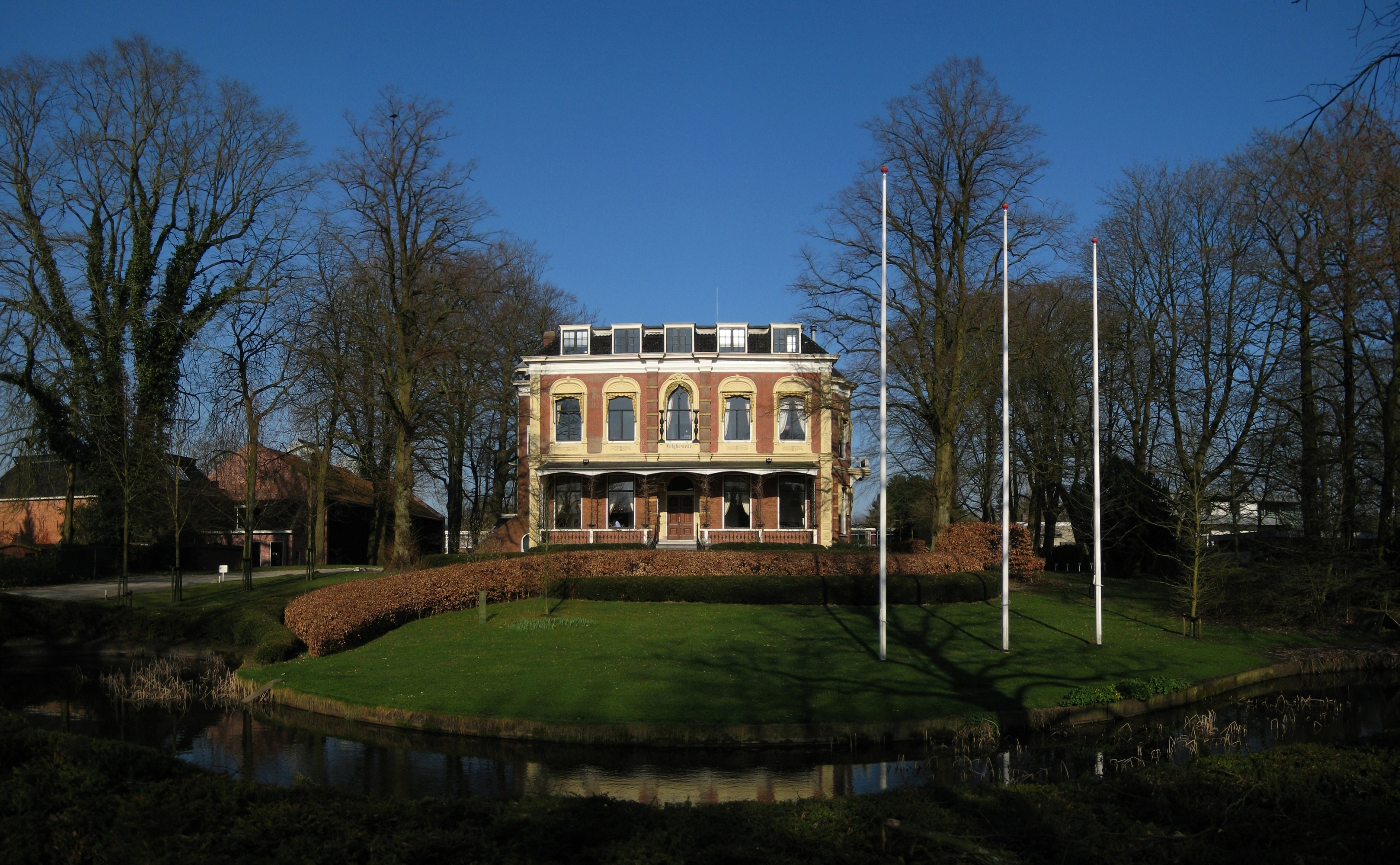 Hilghestede (1895), a villa in the Dutch city of Groningen.